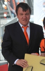 Mykhaylo Sokolovsky